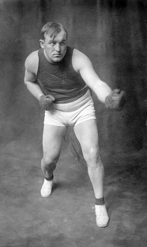 Tommy Burns, became the first fighter to agree to a championship with a black boxer, the legendary Jack Johnson, to whom he lost his title.